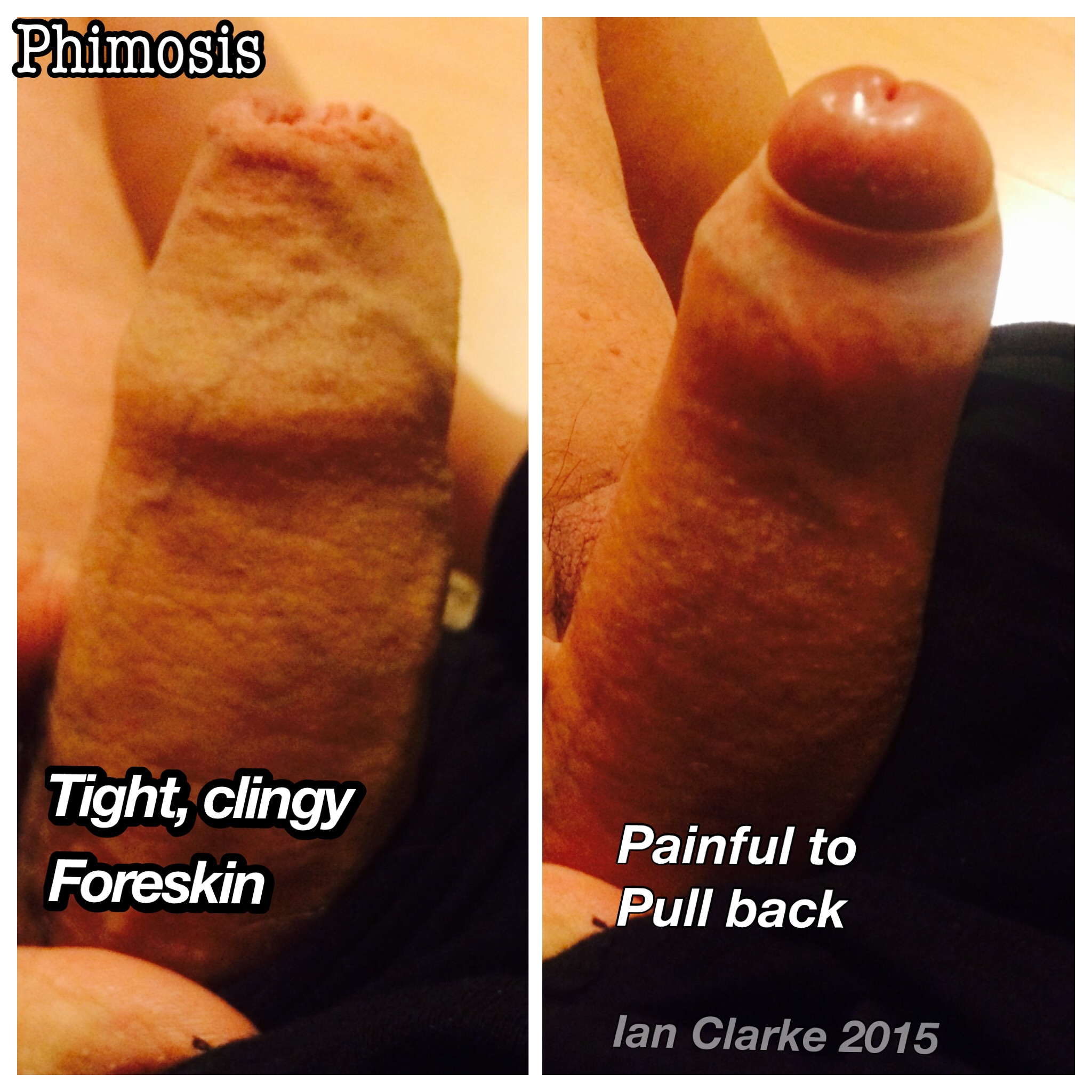 Phimosis is a condition whereby the foreskin is too tight